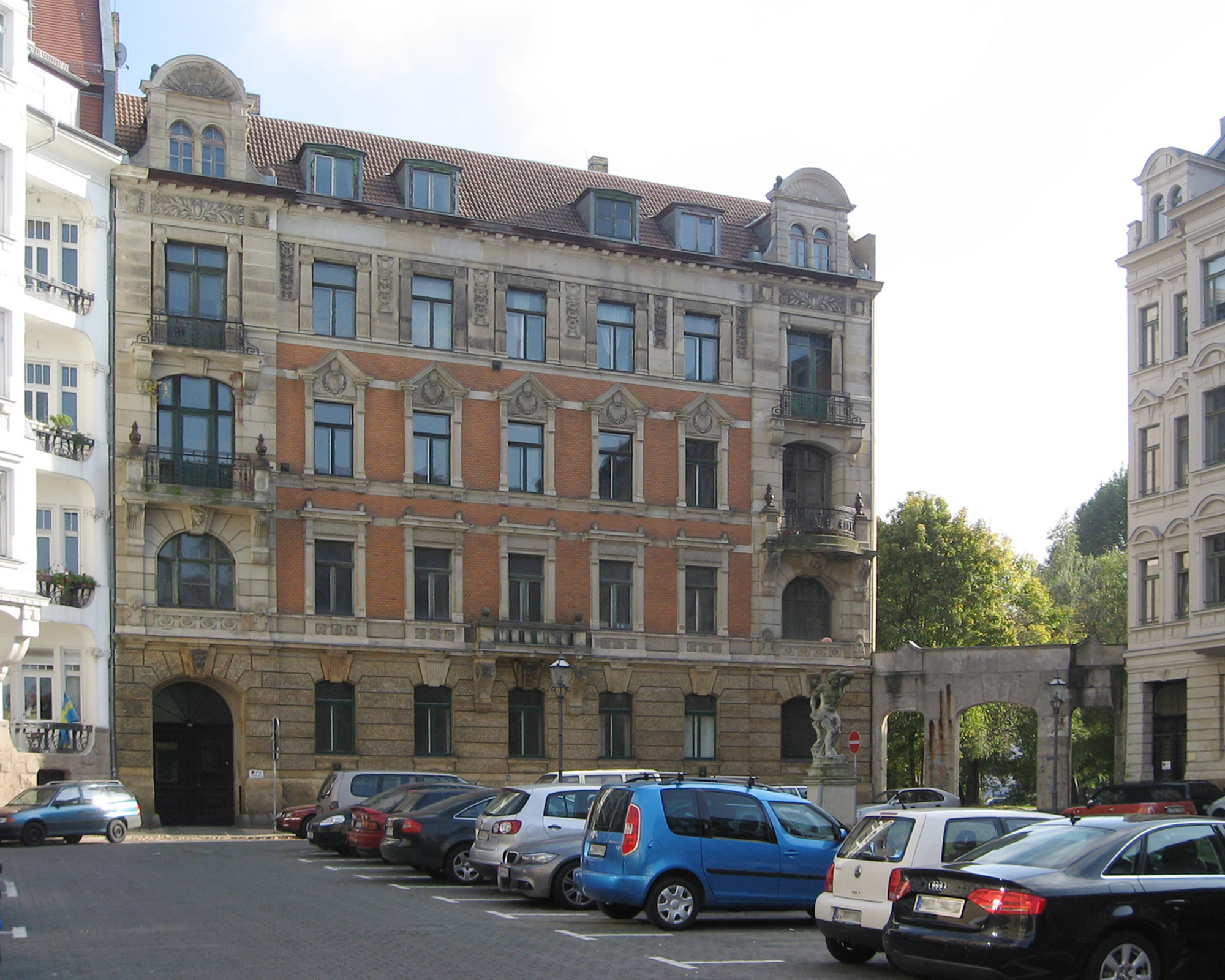 Leipzig, Nikischplatz (until 1943 location of the House of Artists, now only get the portal)